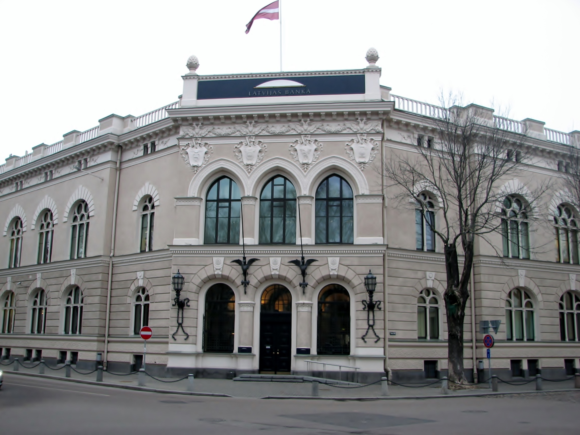 Bank of Latvia, 2a Krišjāņa Valdemāra street